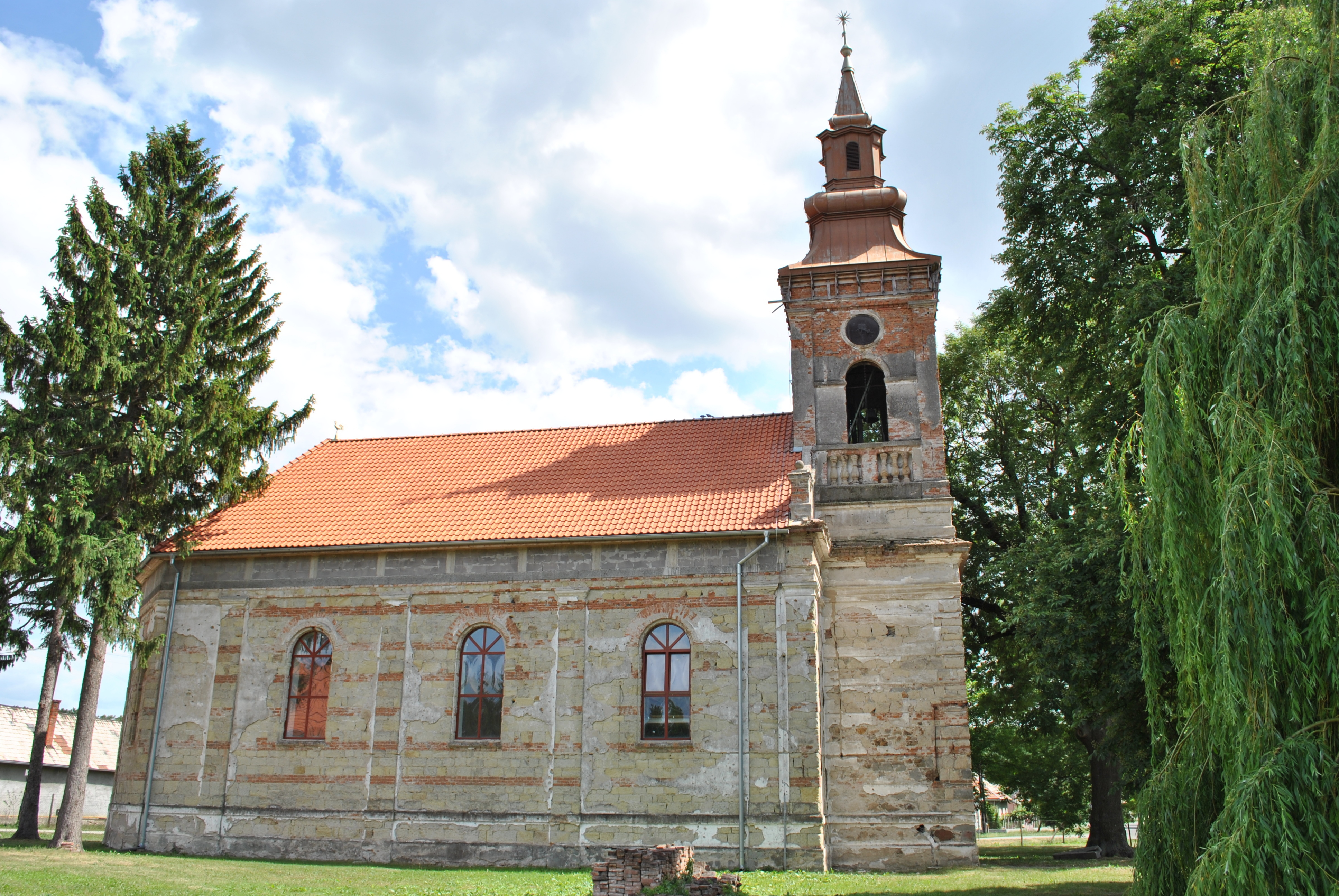 Kalná nad Hronom, reformed church, 2012